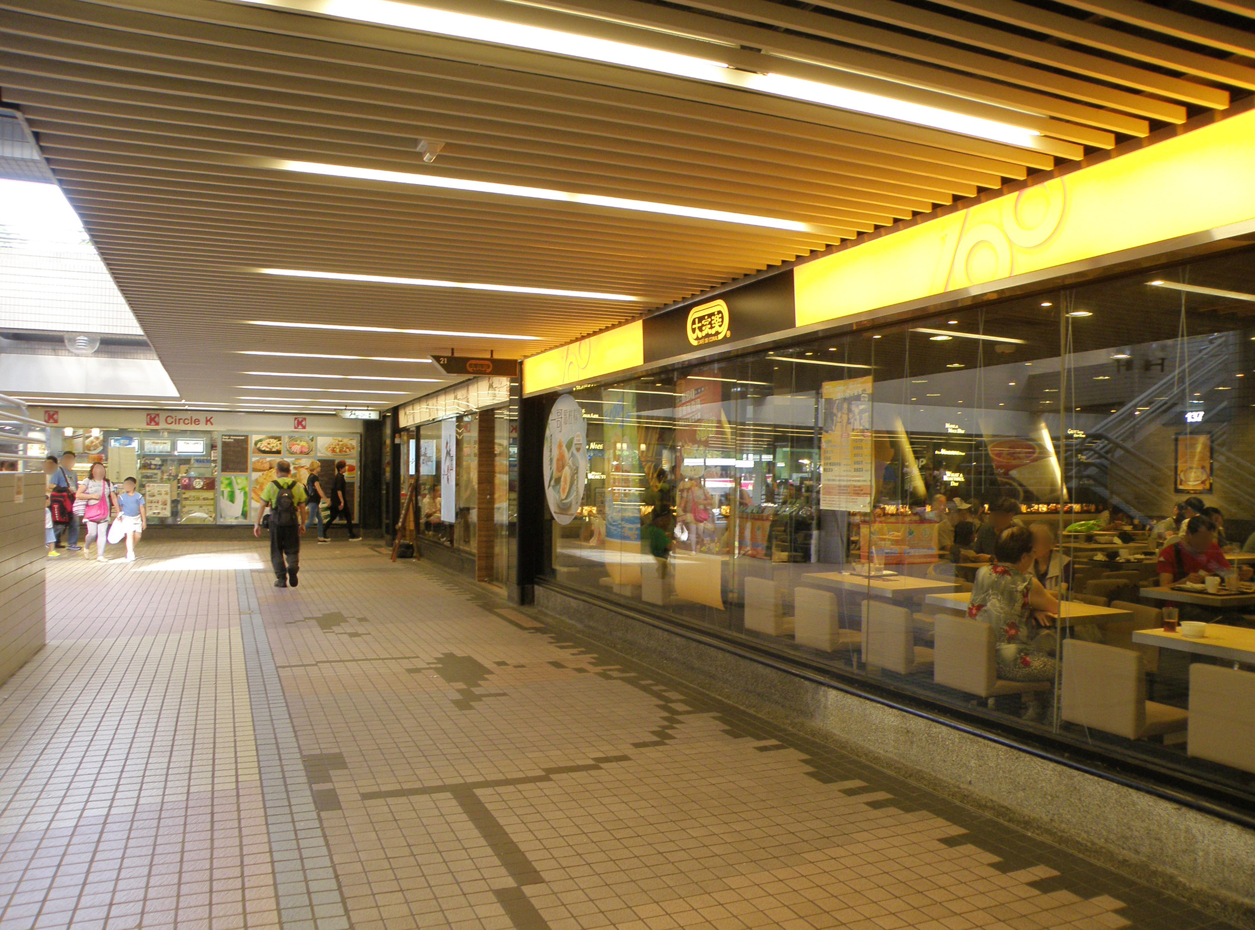 Fu Heng Shopping Centre in Tai Po, Hong Kong.